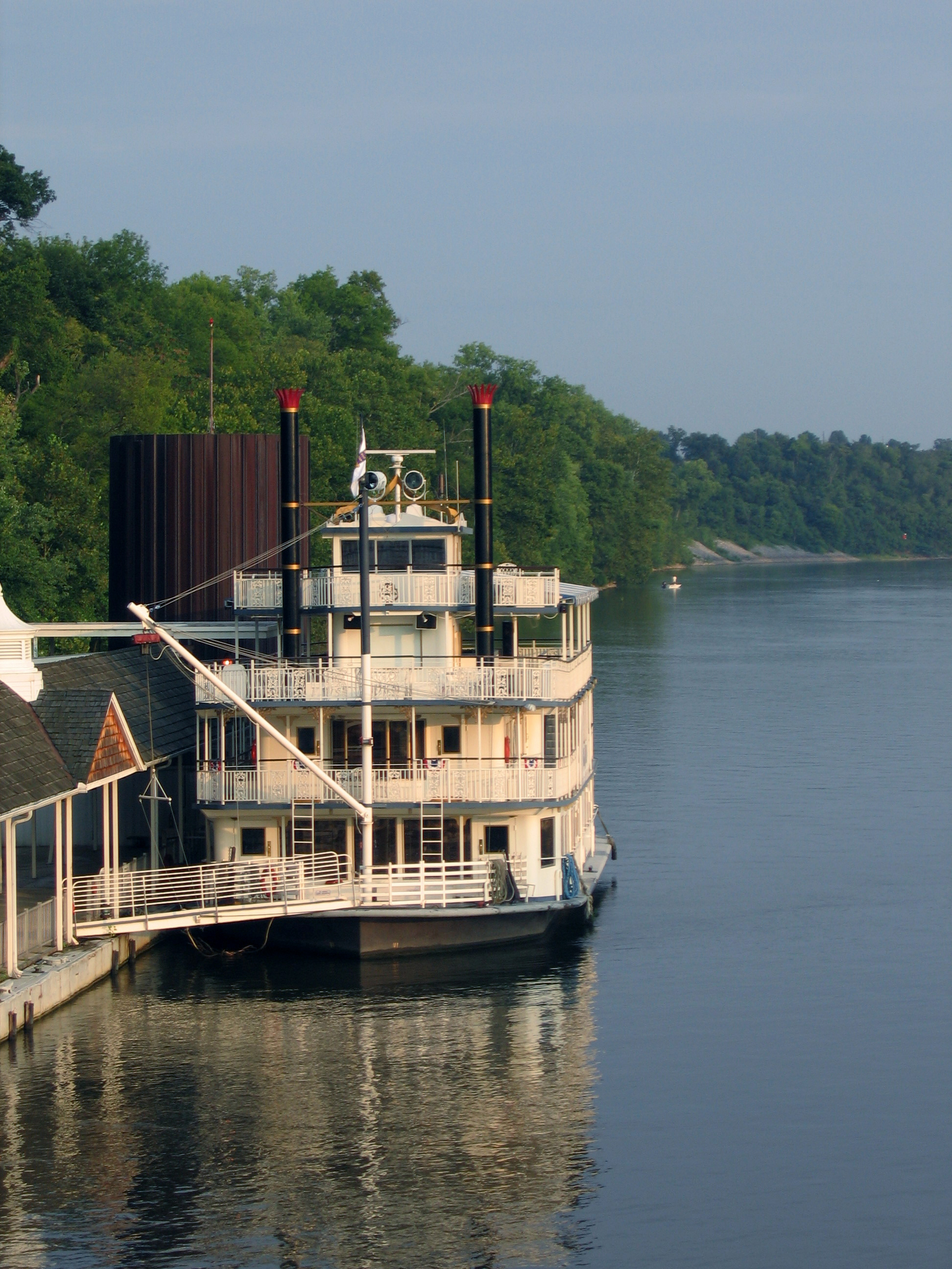 The Music City Queen showboat docked outside Opry Mills on the Cumberland River in Nashville, Tennessee.